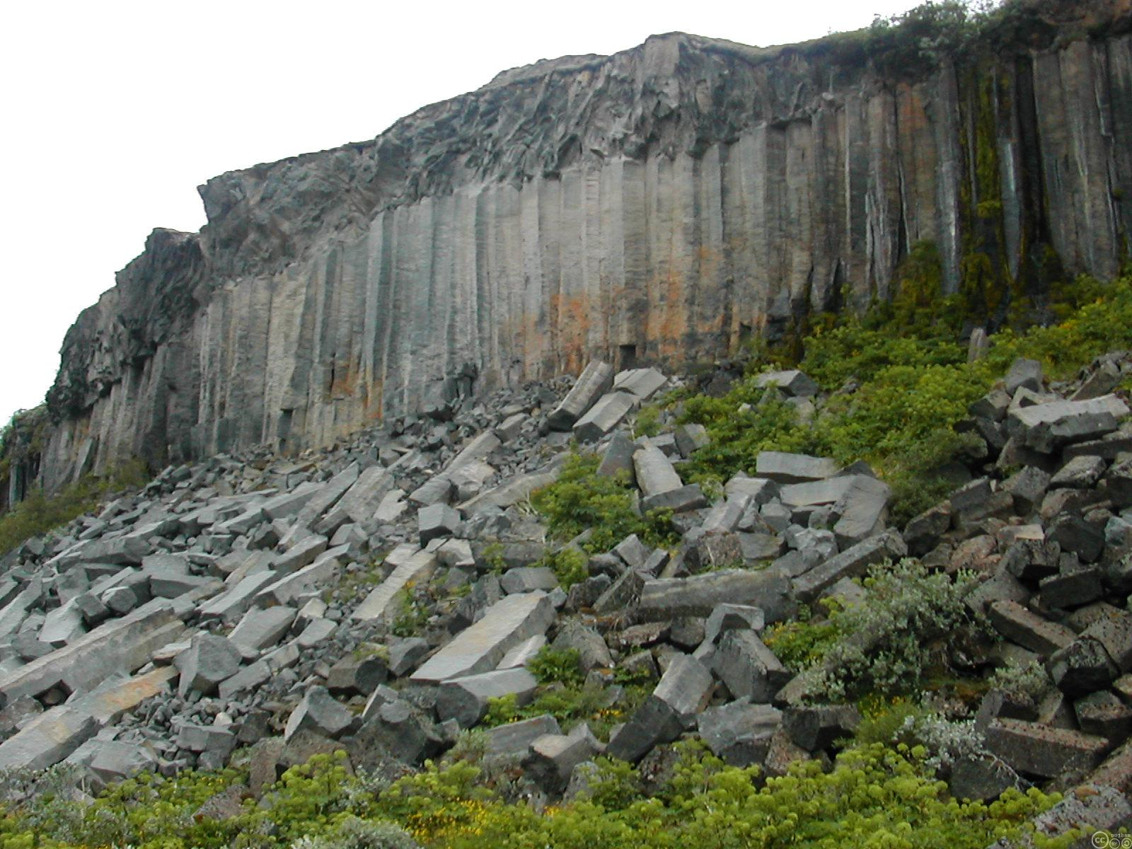 Columnar jointed basalt. In the Jökulsárgljúfur, Islande. Photography taken with a digital camera.